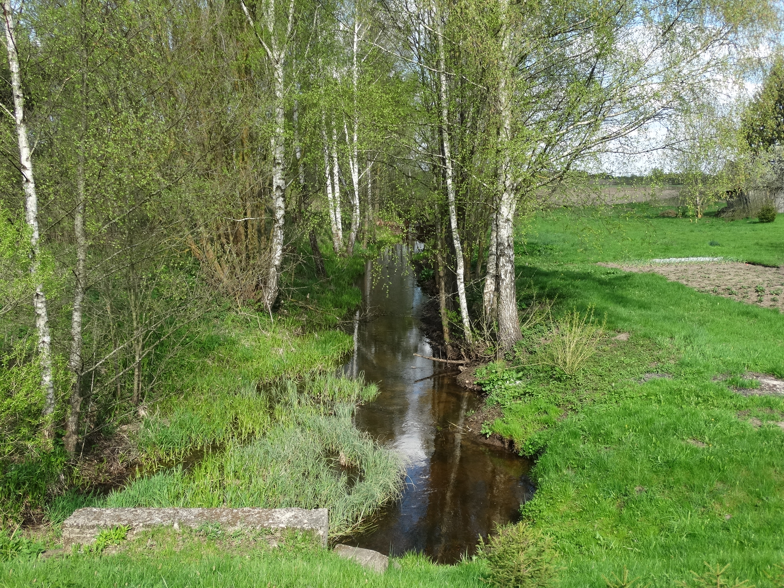 Berželis (Gauja tributary) in Kalviai, Šalčininkai District, Lithuania